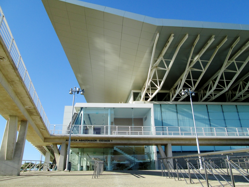 University of Cyprus buldingTheatre Republic of Cyprus